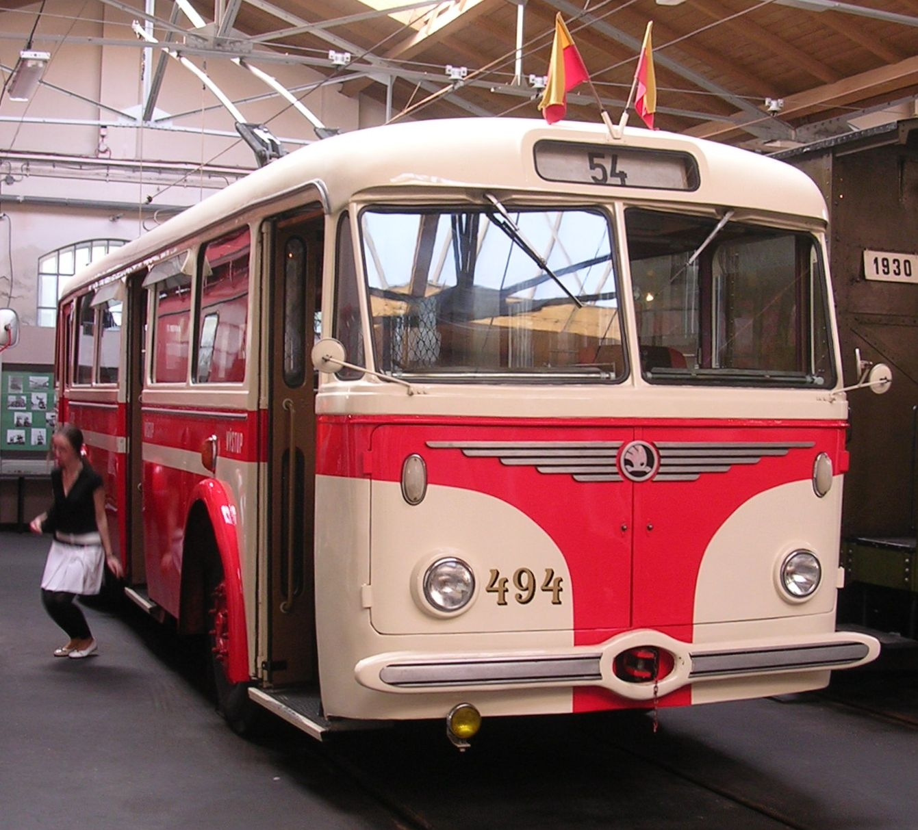 Střešovice, Prague, the Czech Republic. A trolleybus Škoda 8Tr.